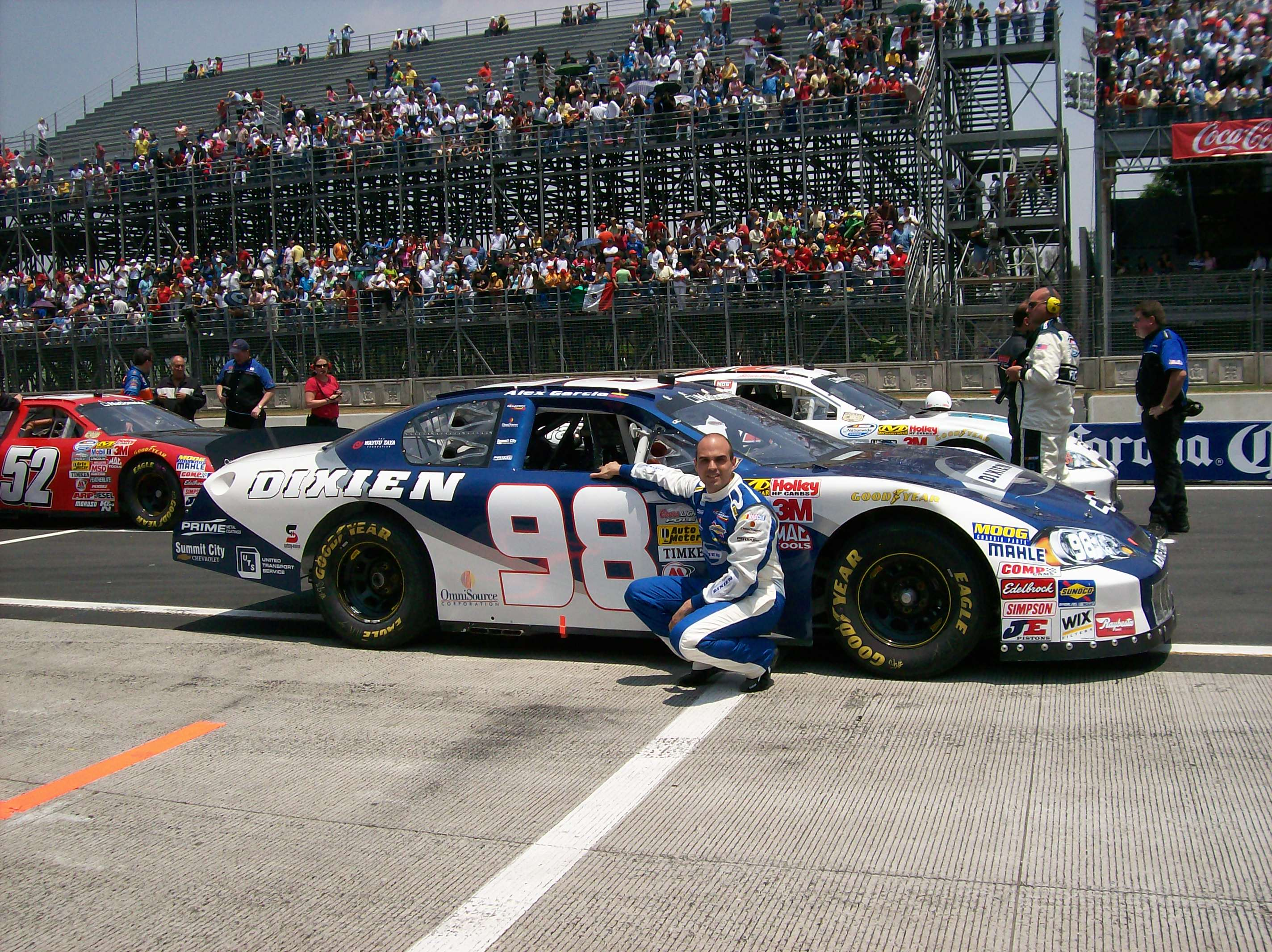 Alex Garcia on the starting grid in Mexico City